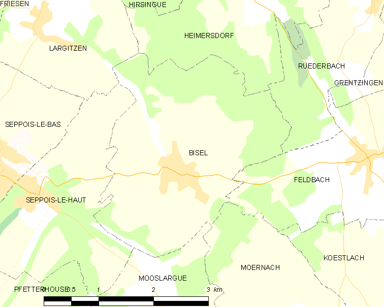 Map of French municipality